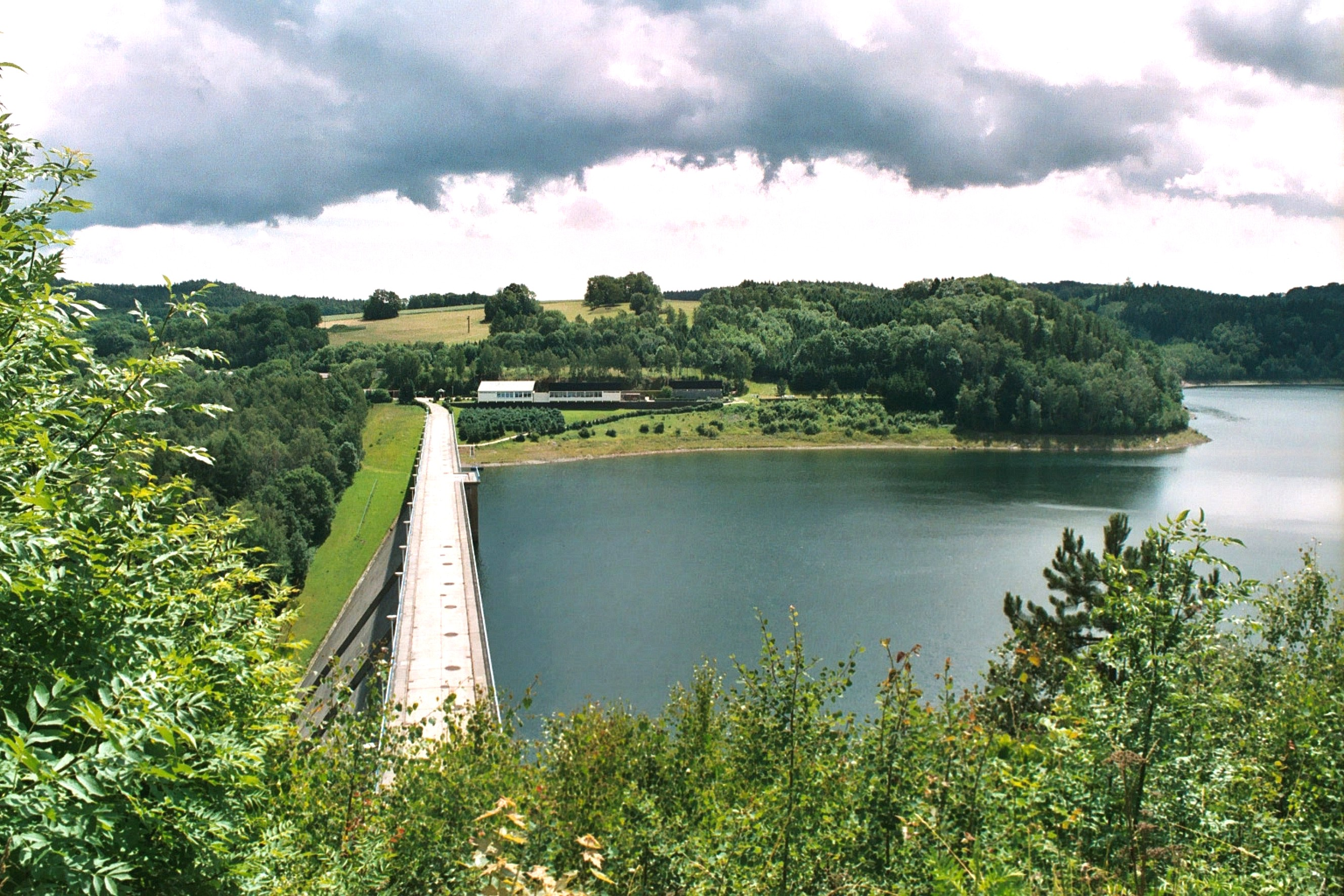 Hartmannsbach (Bad Gottleuba- Berggießhübel), retaining wall of the barrage